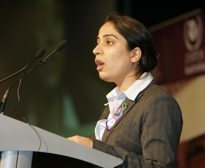 Malalai Joya, brave woman in Afghanistan speaking on March 8, 2007 in Australia